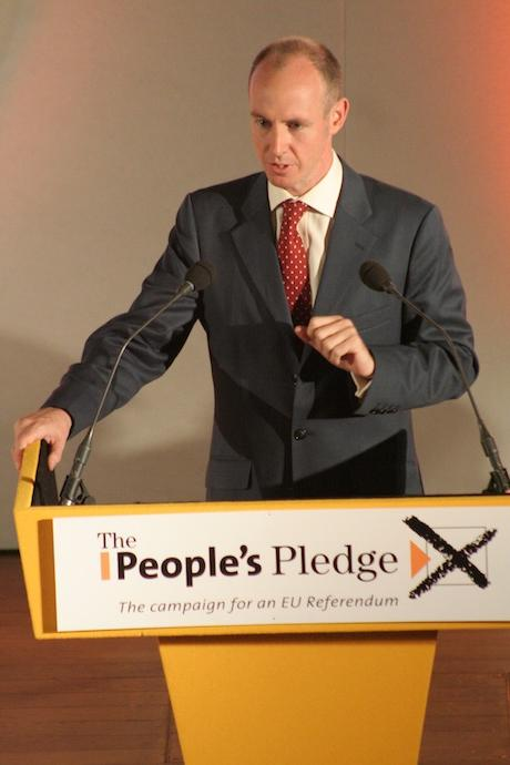 British politician and journalist Daniel Hannan giving a speech to the People's Pledge Congress in London on 22 October 2011.